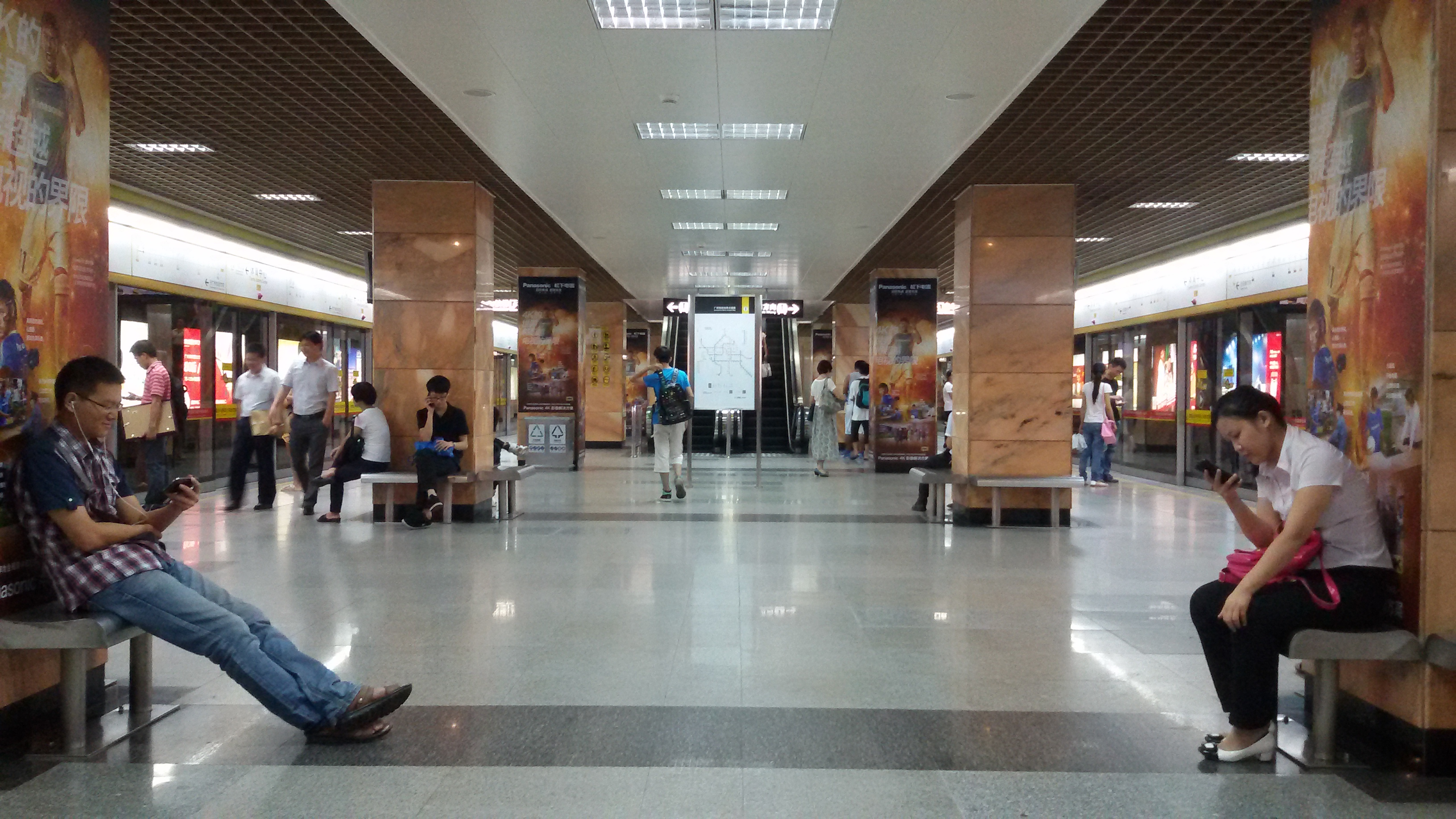 Platform for Tianhe Sports Center Station, Guangzhou Metro 粵語: 廣州地鐵，體育中心站嘅站台。